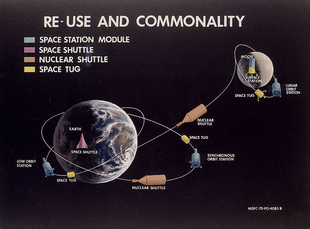 This 1970 artist's concept illustrates the use of the Space Shuttle, Nuclear Shuttle, and Space Tug in NASA's Integrated Program. As a result of the Space Task Group's recommendations for more commonality and integration in the American space program, Marshall Space Flight Center engineers studied many of the spacecraft depicted here.